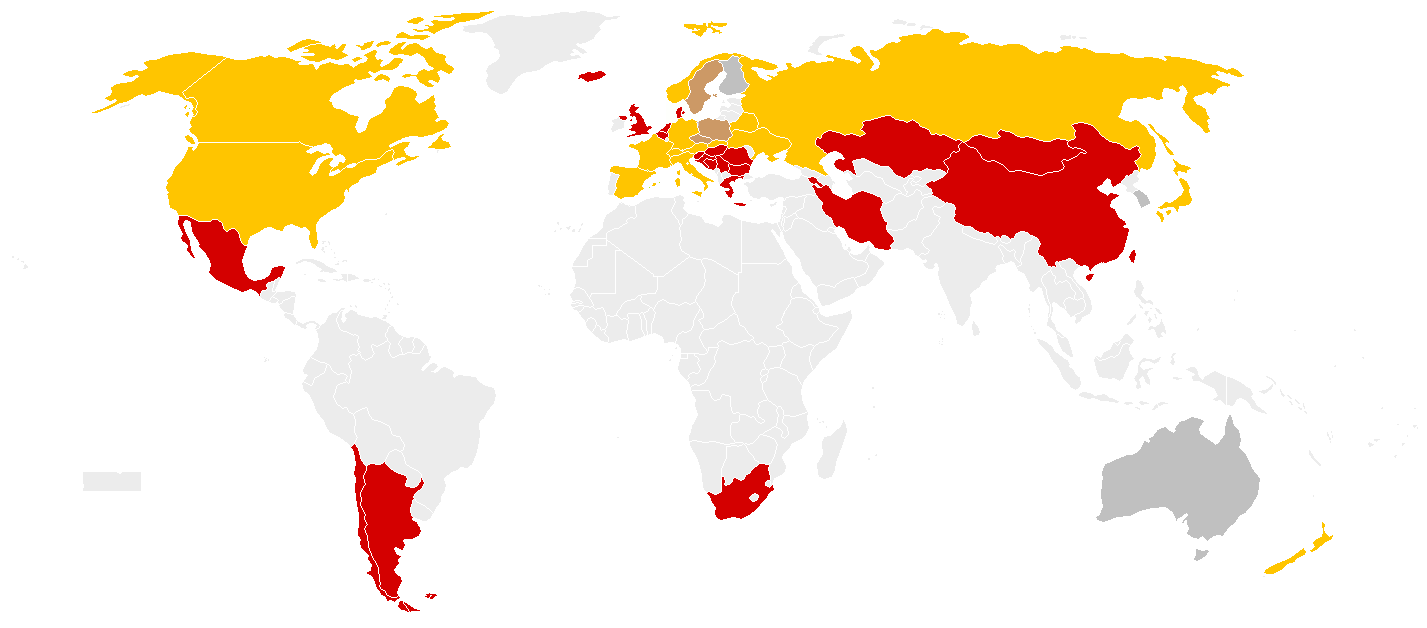 Countries with at least one gold medal Countries with at least one silver medal Countries with at least one bronze medal Countries that didn't get any medal Countries that did not participate